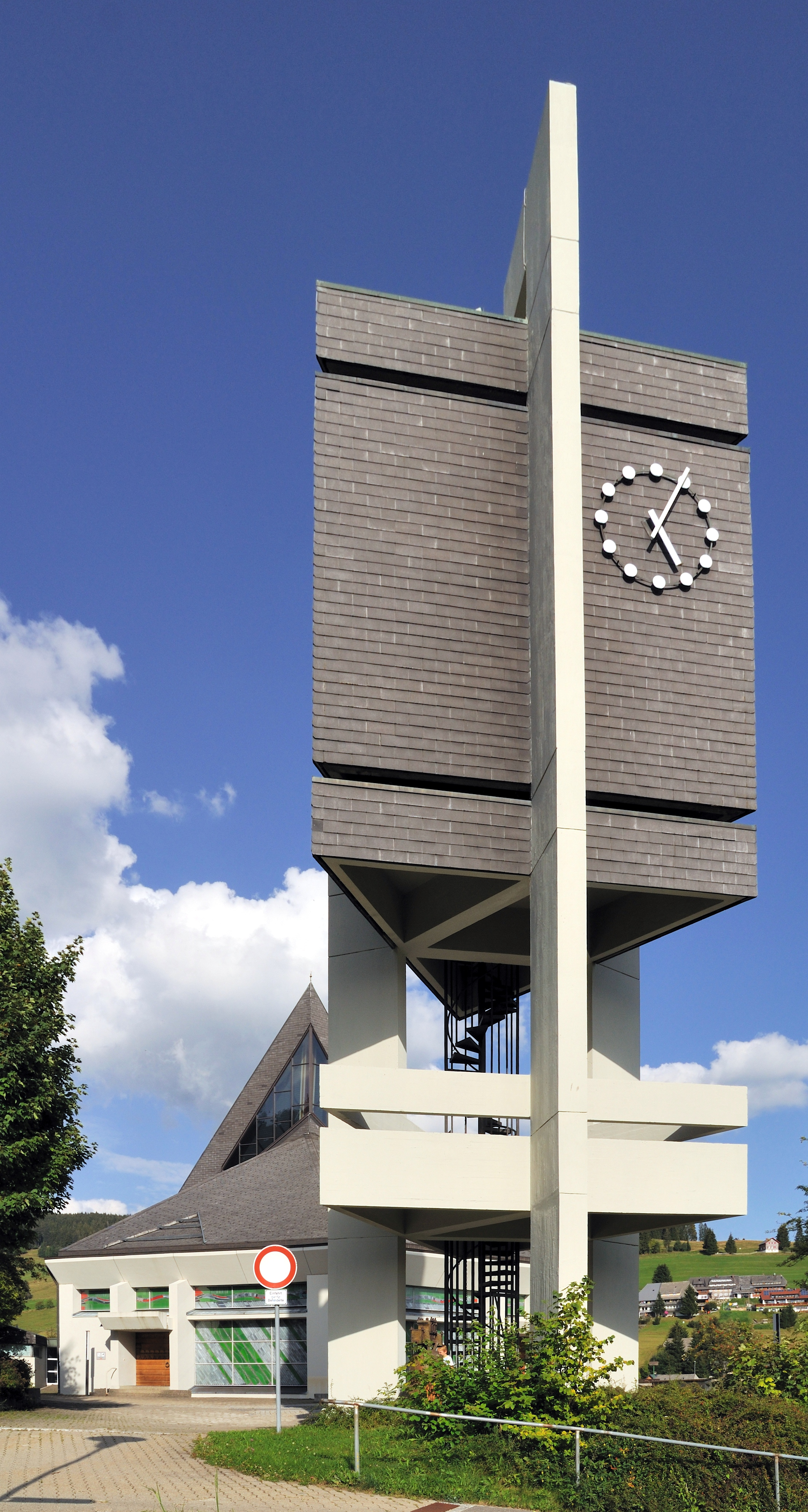 Todtnauberg: Church of Saint James, son of Zebedee.